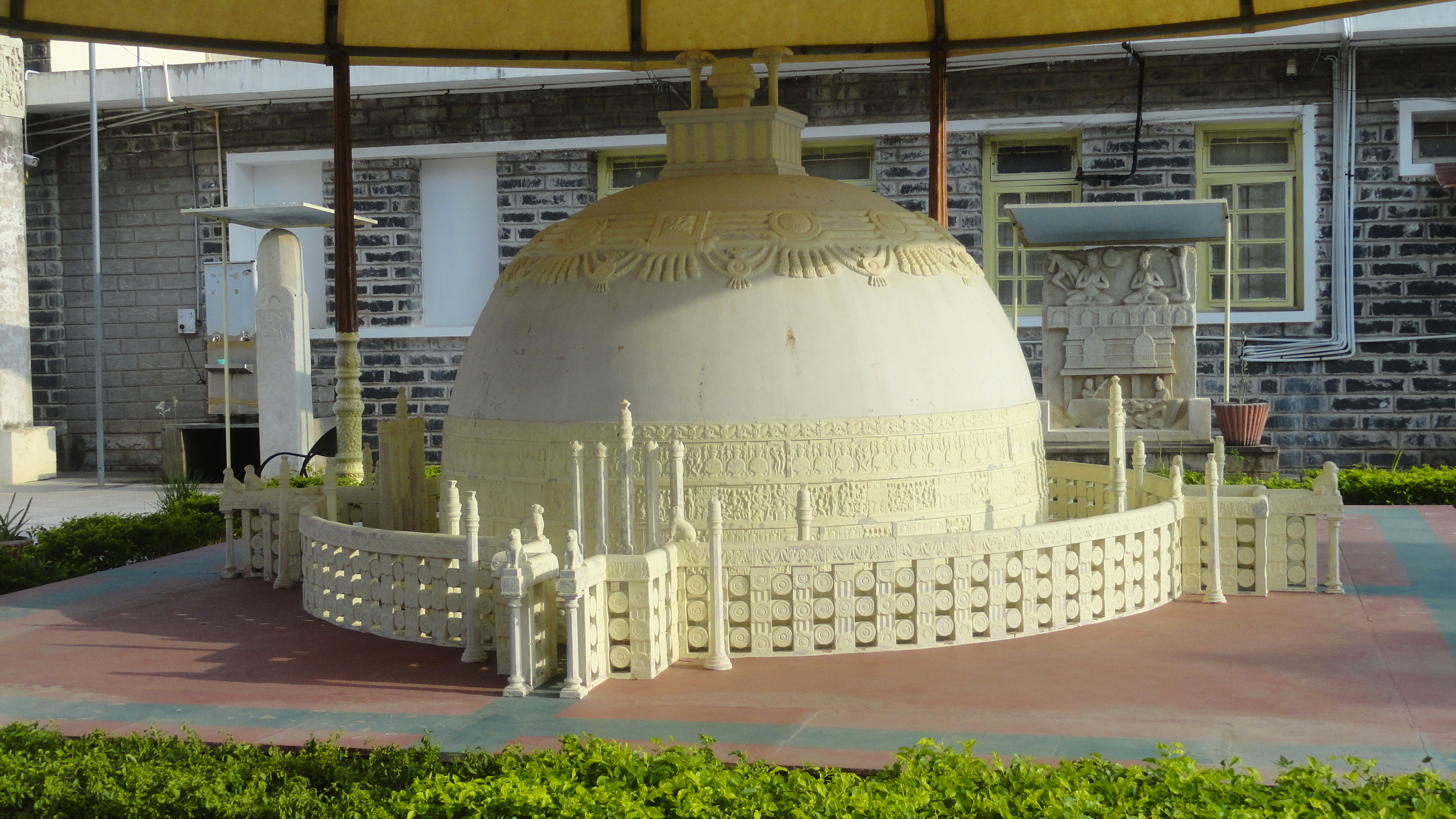 Amaravati stupa. at Amaravati. close view